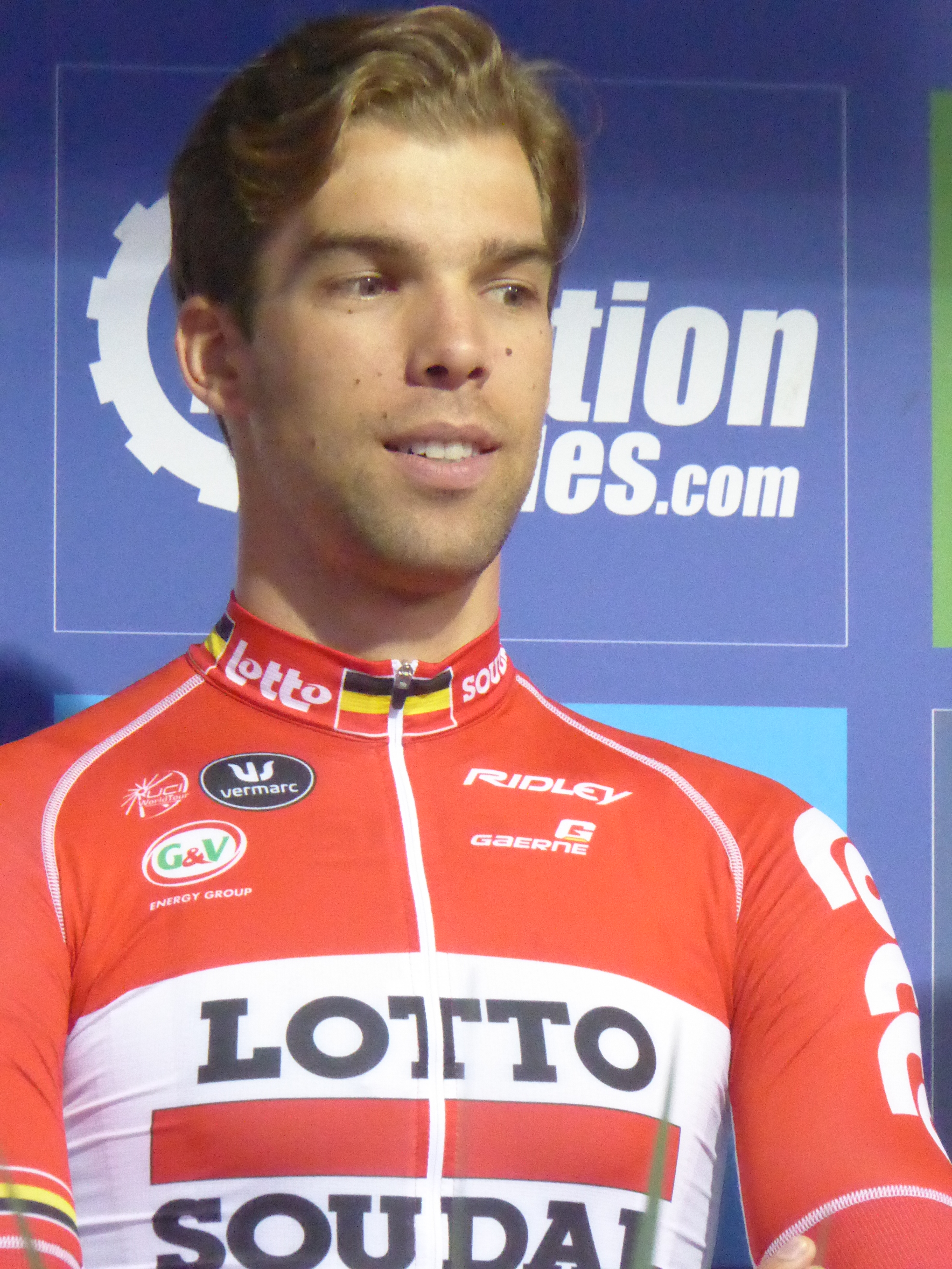 Jens Debusschere (Lotto-Soudal), pictured at the 2016 Tour of Britain team presentation in Glasgow on 3 September 2016.